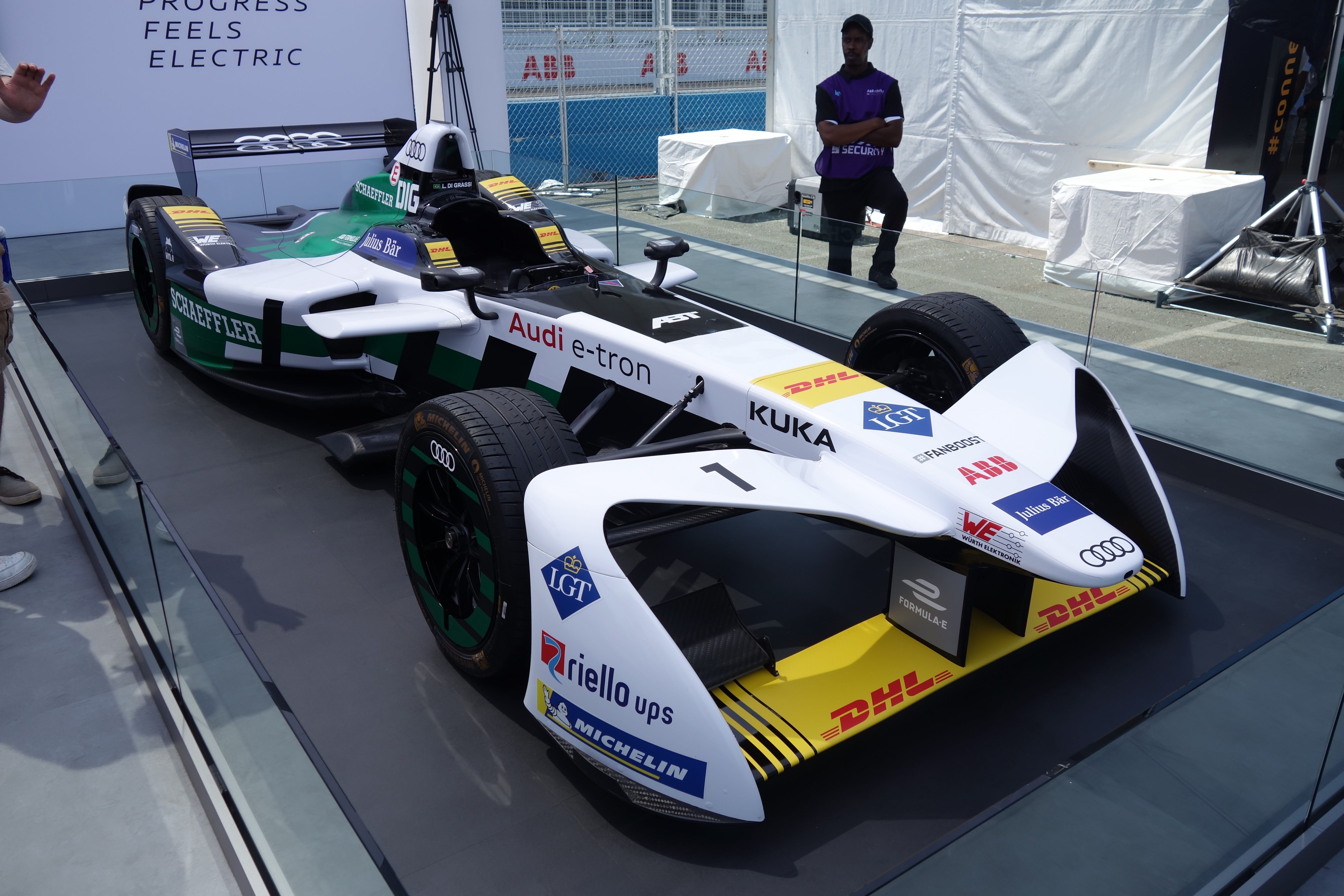 The Audi Sport ABT Schaeffler Formula E car of Lucas di Grassi, on display at the Audi stand in the Allianz eVillage of the Brooklyn Street Circuit during the first race of the 2018 New York City ePrix on Saturday, July 14, west of Imlay Street and Bowne Street in Red Hook, Brooklyn.